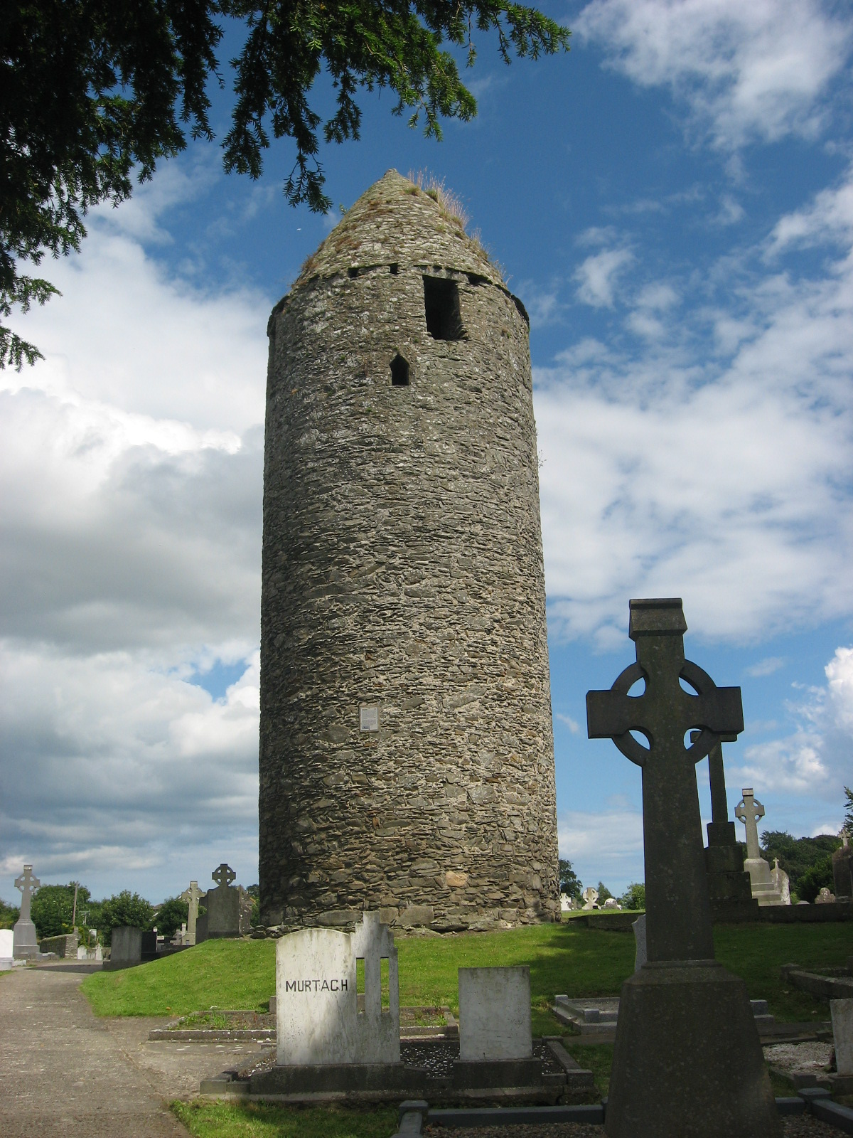 Round Tower at Dromiskin, Co. Louth The truncated 9th-century Round Tower with conical roof added c. 1880 according to 'Buildings of Ireland: North Leinster'. Viewed from the gate.